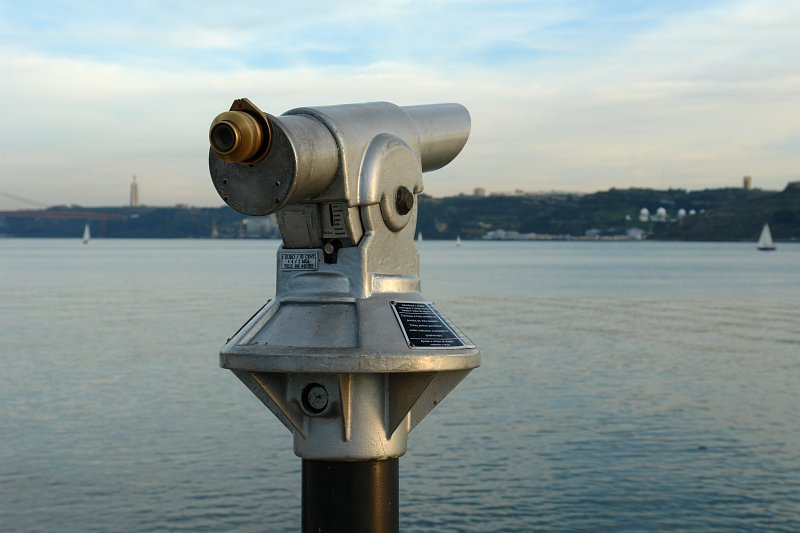 Photography by Osvaldo Gago